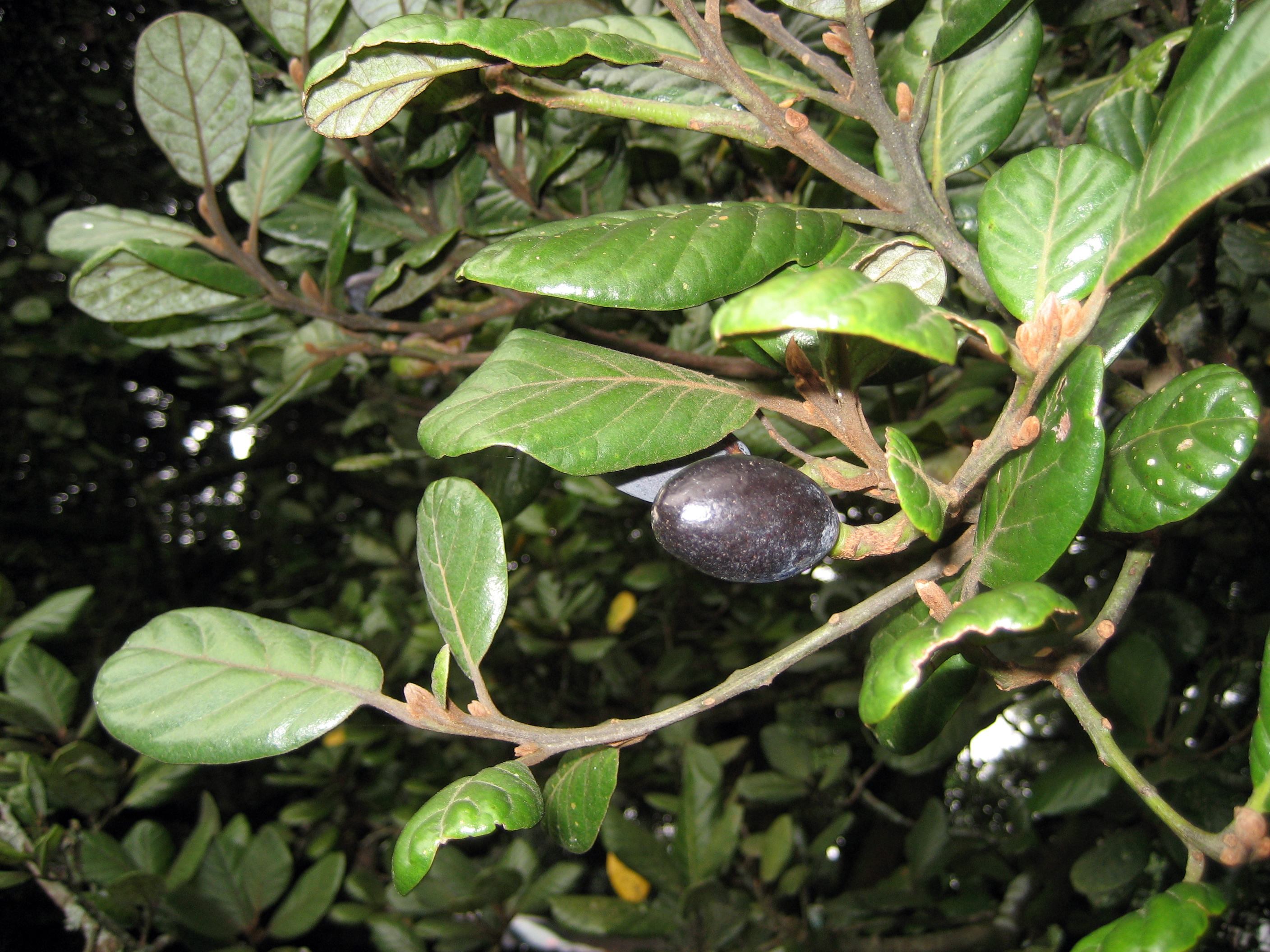 Foliage and ripe drupe of Beilschmiedia tarairi, Taraire, Lauraceae, New Zealand